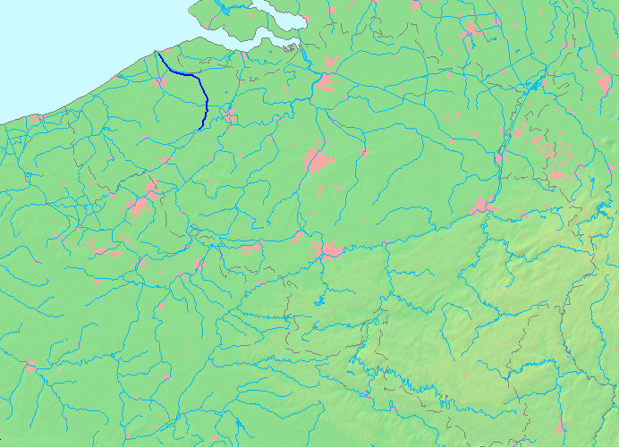 Location of a waterway (river/canal) in Belgium